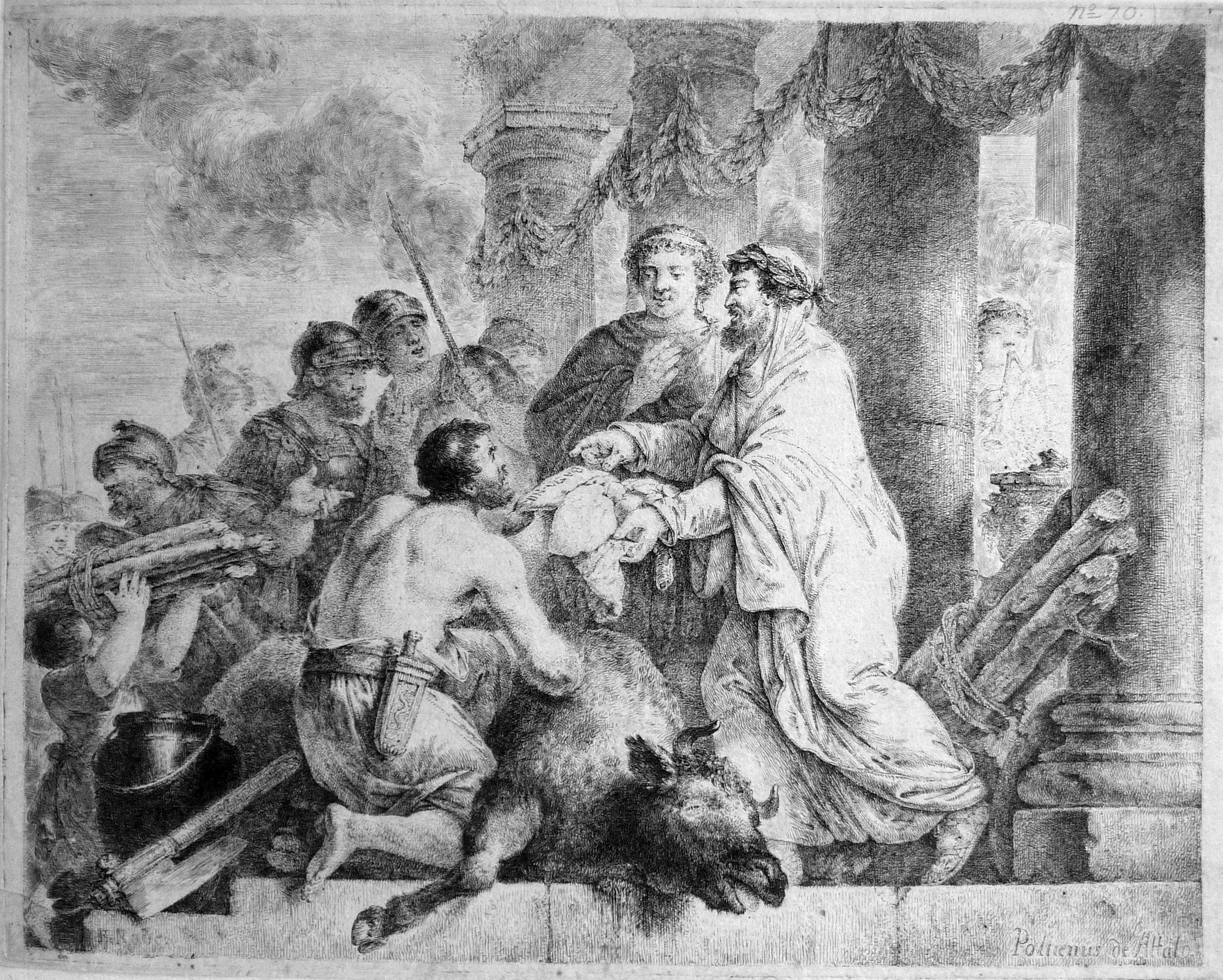 During a sacrifice, King Attalus presses two words into the liver of the slaughtered animal. Engraving by Bernhard Rode, ca. 1780.